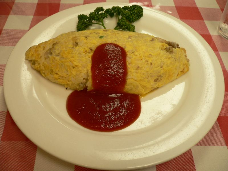 Omurice